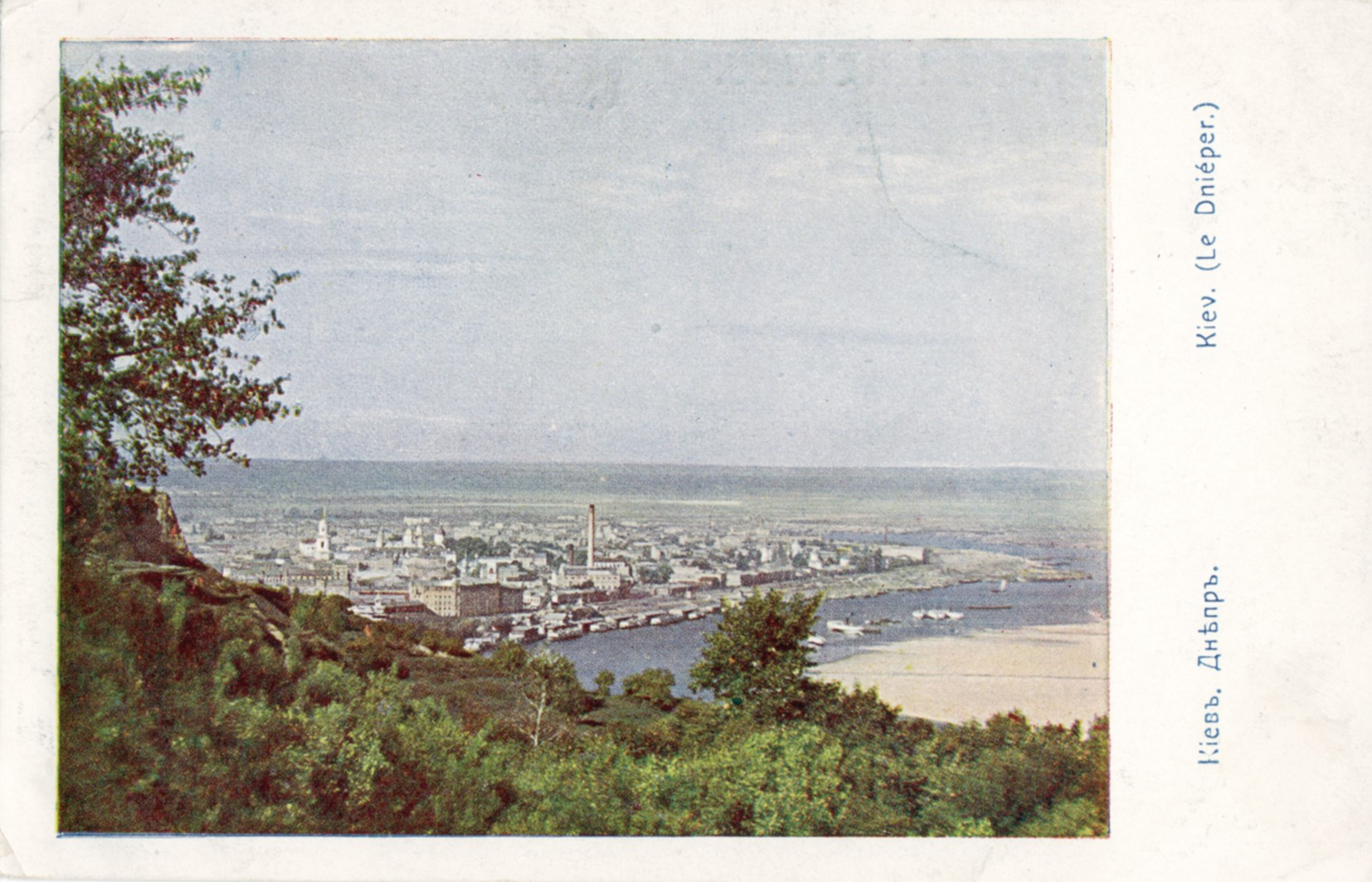 Kiev view on Prokudin-Gorskii postcard